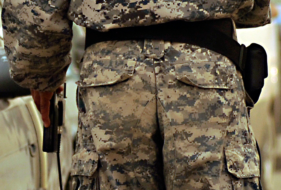 Iraqi soldiers and U.S. Soldiers hold random security checks during a security checkpoint mission in Abu T'Shir, Iraq.